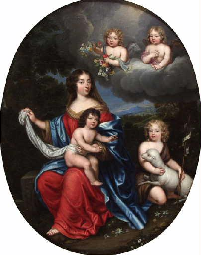 Madame de Maintenon with the Count of Vexin and the Duke of Maine